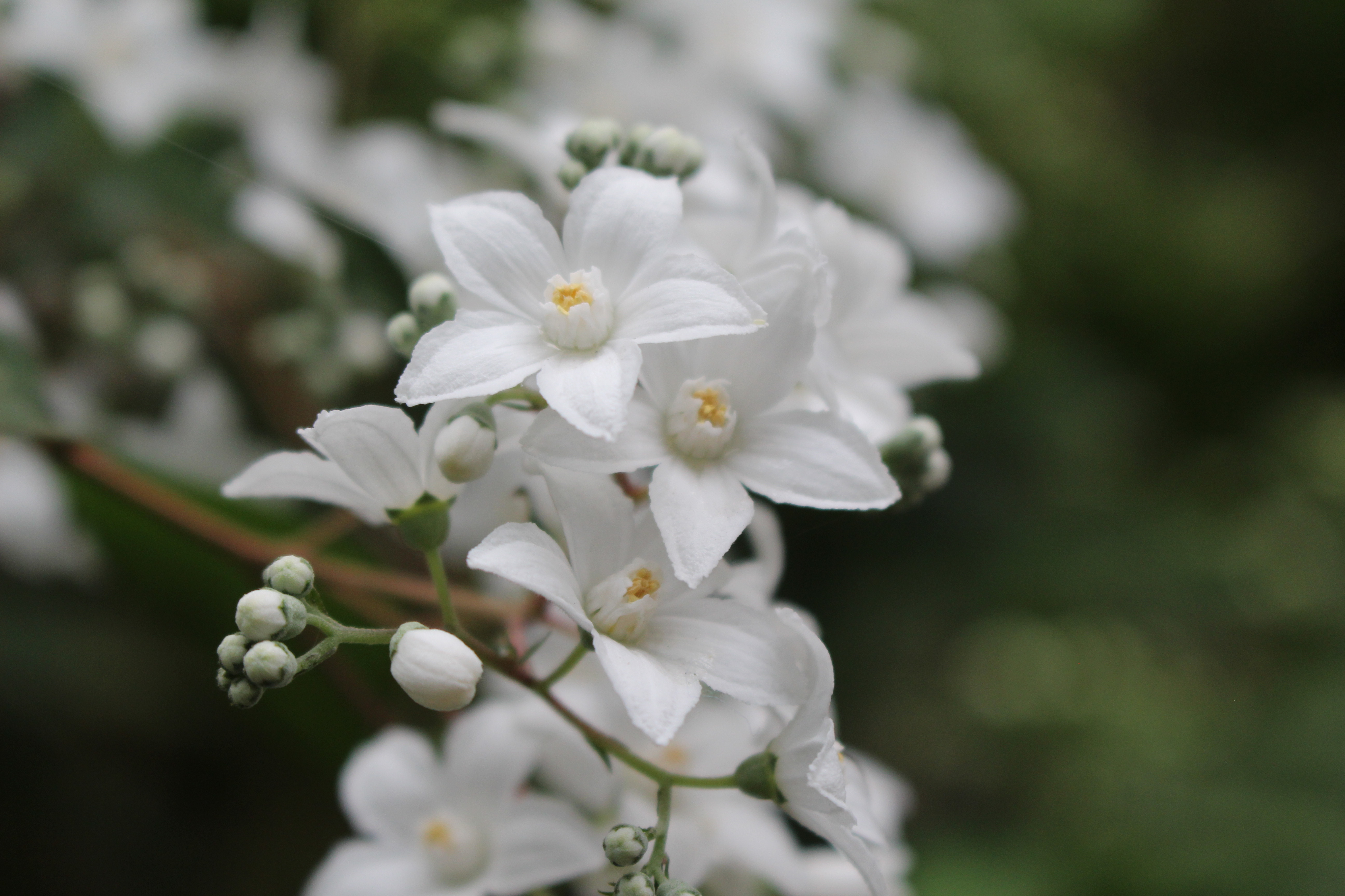 Flowers of a white variety of Dichroa febrifuga in the 'Botankia' in Bremen, Germany.